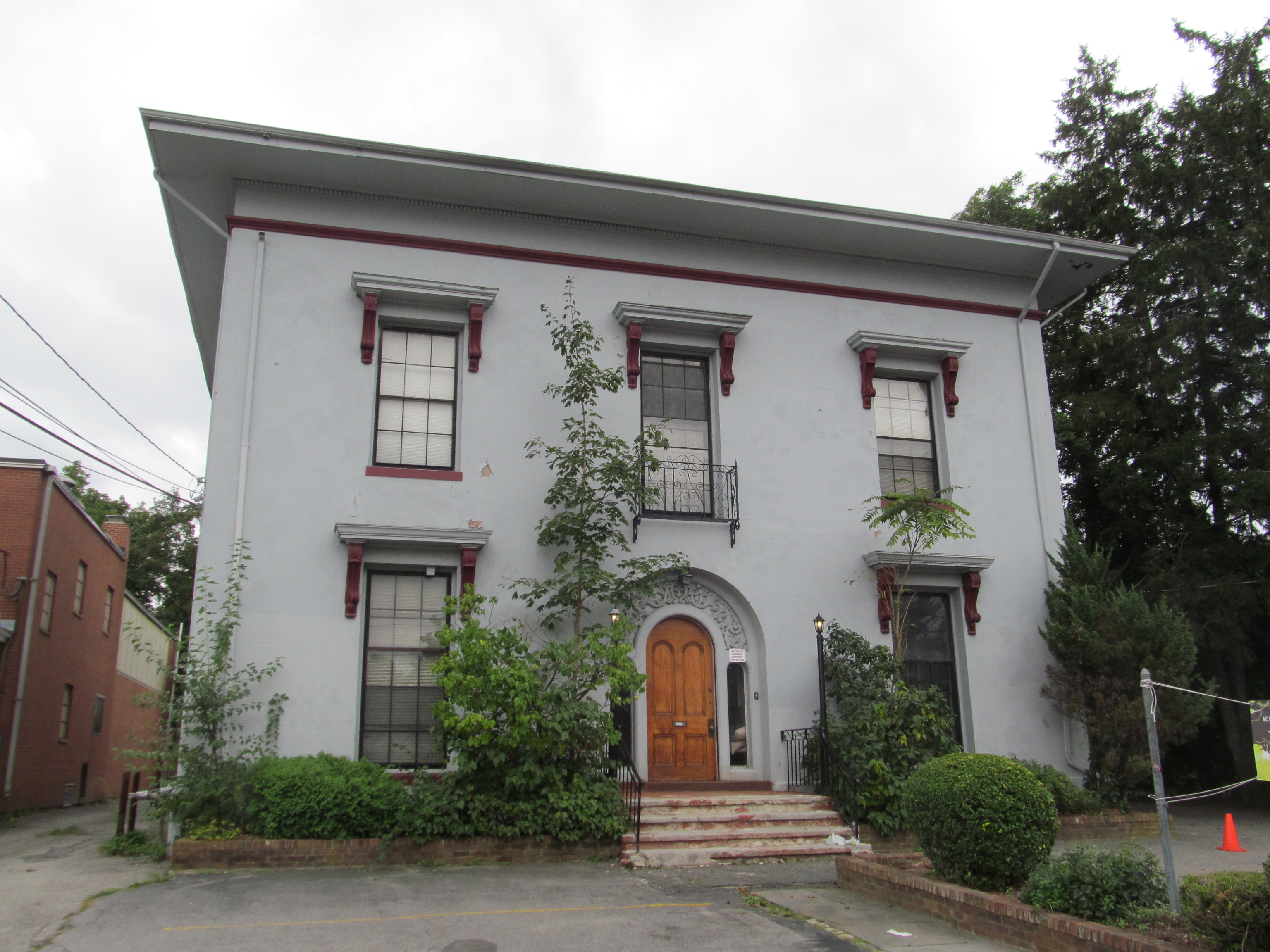 Samuel Washburn House, Taunton Massachusetts